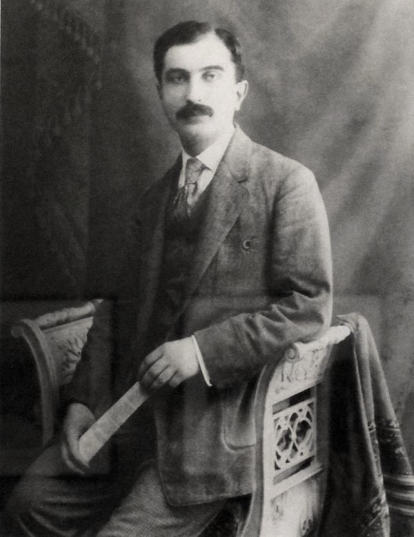 Mihran Mesrobian (10 May 1889 – 21 September 1975) was an Armenian-American architect whose career spanned over fifty years and in several countries. Having received an education in the Academy of Fine Arts in Constantinople, Mesrobian began his career as an architect in Smyrna and in Constantinople. While in Constantinople, Mesrobian served as the palace architect to the last Ottoman Sultan, Mehmed V. During World War I, Mesrobian was drafted into the Ottoman army and became a decorated member of the Ottoman Army. He participated in the Battle of Gallipoli and served in the Eastern front against the Russians during the Caucasus Campaign and the Arabs during the Arab Revolt. During this time, the Armenian Genocide was underway, and his family in his native Afyonkarahisar were deported and never to be heard of again. Mesrobian lost fifteen members of his friends and family as a result of the genocide. He was held captive under the Arabs but was ultimately freed with the help of T.E. Lawrence. Mesrobian immigrated to the United States in 1921 and became a prominent architect in the Washington, D.C. area. He became the primary in-house architect for legendary Washington developer Harry Wardman. Much of his architecture reflected an Art-Deco style, however some of his projects were done in Italian Renaissance and Moderne styles as well. Among his most noted works include Hay–Adams Hotel, The Carlton Hotel, Sedgwick Gardens, Calvert Manor, Glebe Center, and many others.